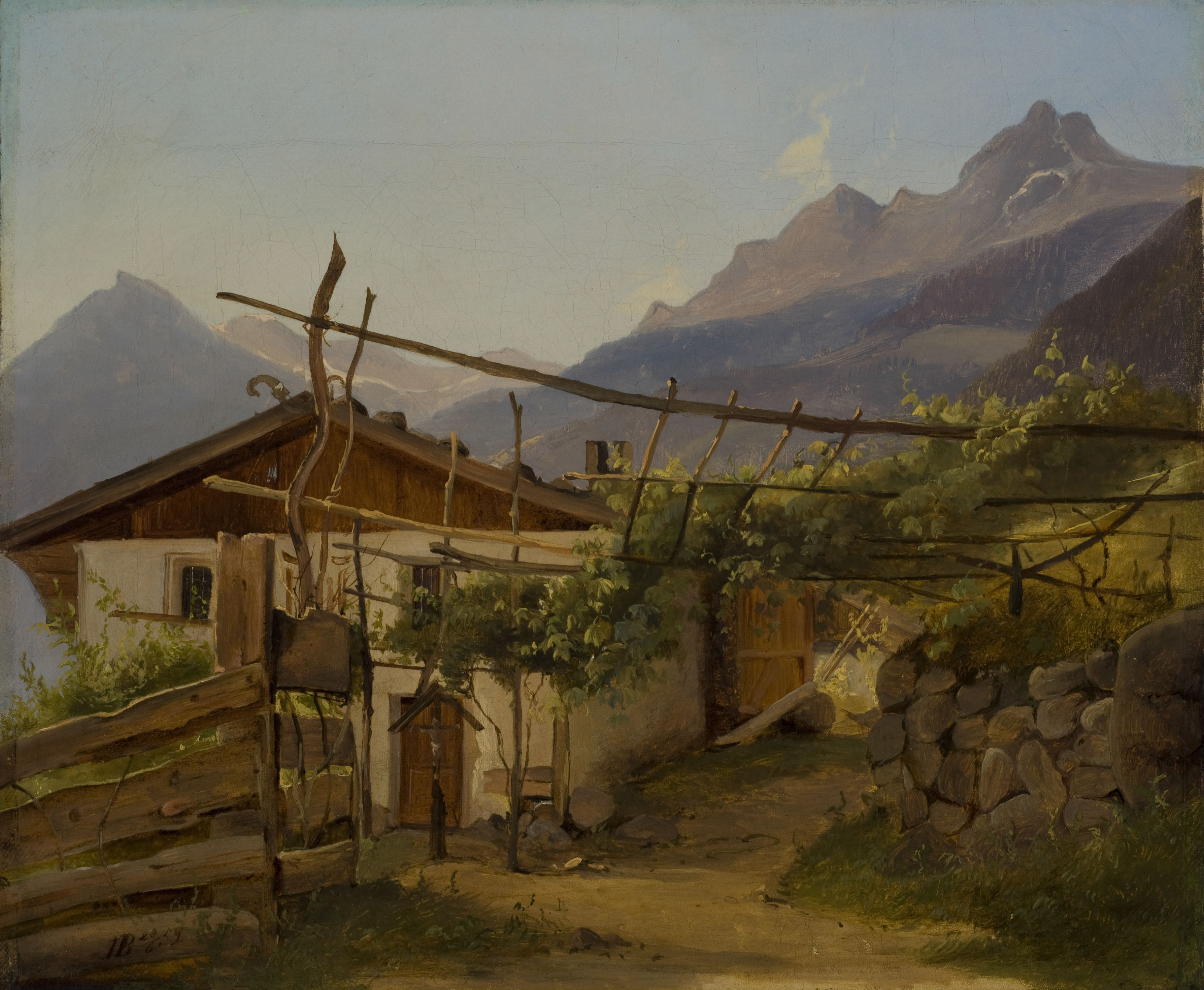 Mountain hut with climbing vine, painting by Danish artist Thorald Brendstrup